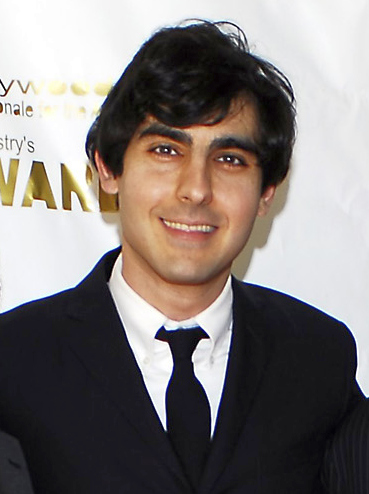 Gil Kenan at the 34th Annie Awards